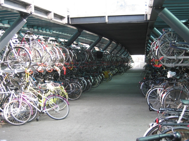 bicycle parking lot at Leiden's station